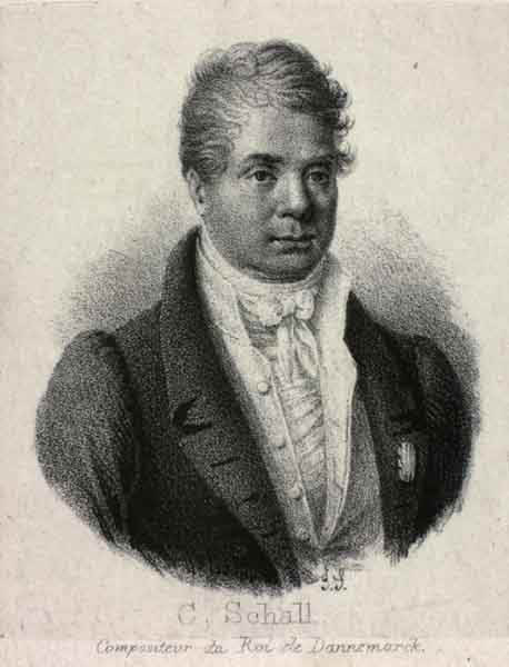 Lithograph of Claus Schall.